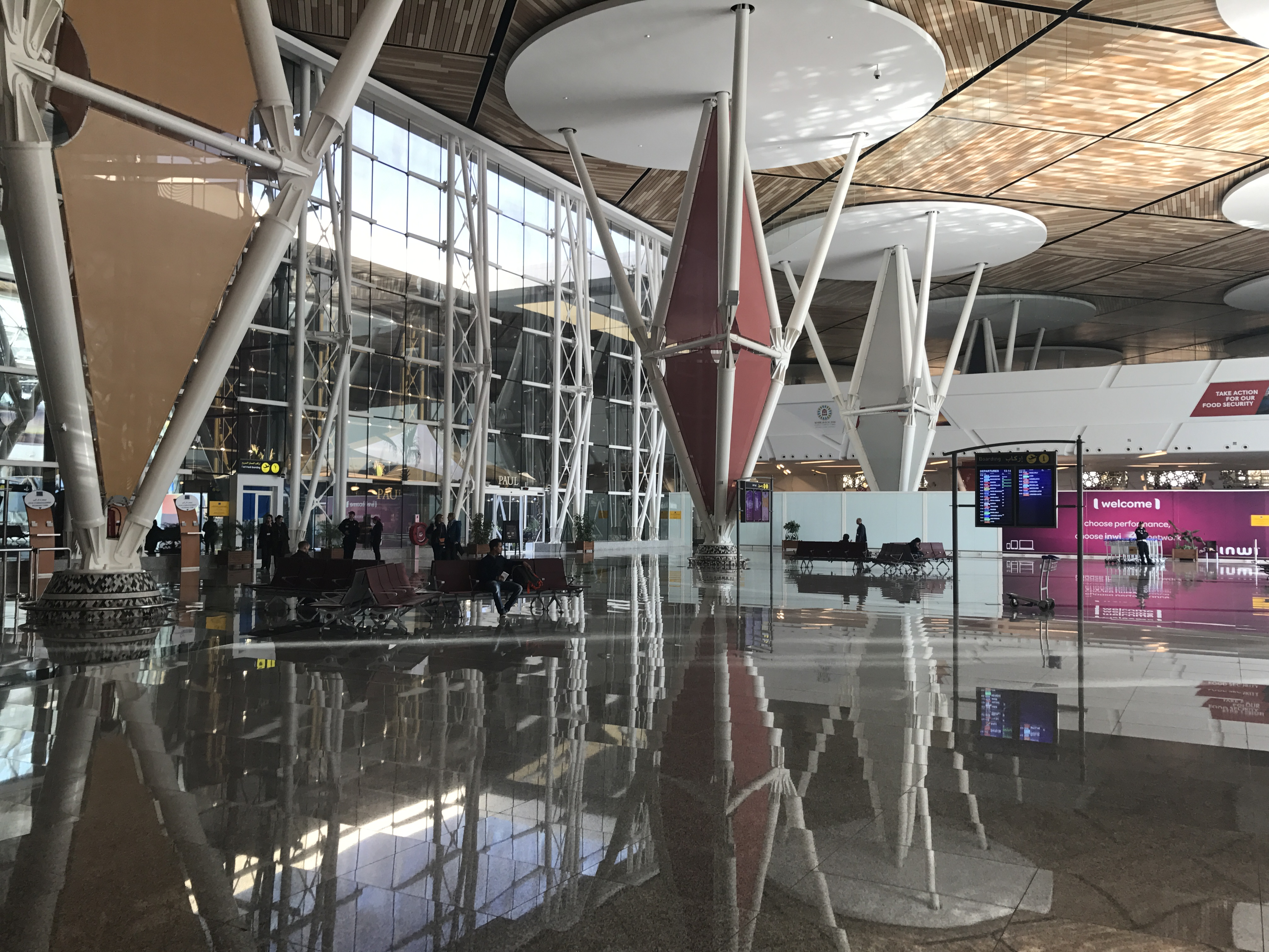 Terminal 3 in Marrakech Menara International Airport